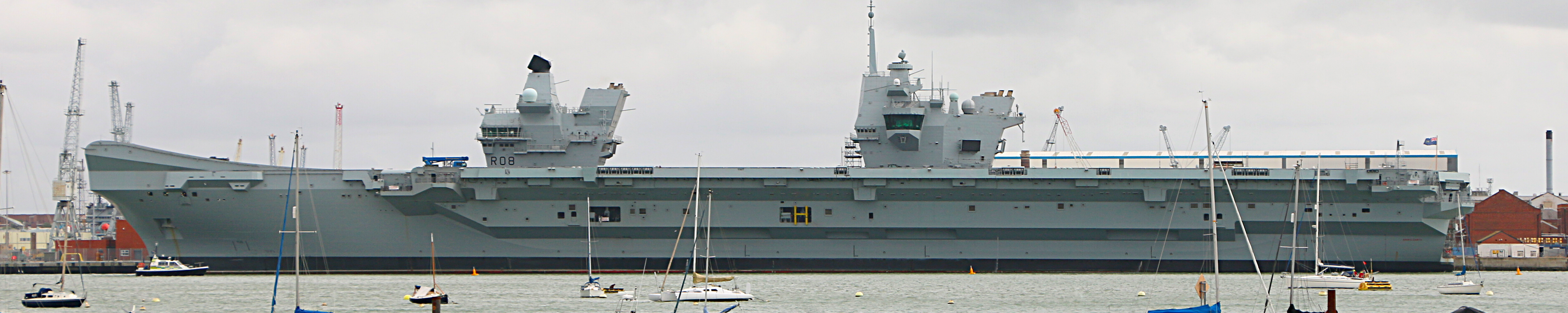 HMS Queen Elizabeth docked in Portsmouth, England.